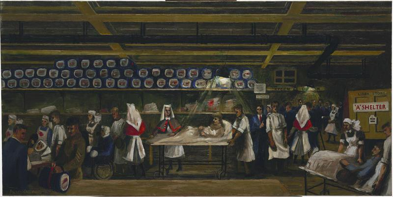 A view of a corridor with patients on trollies and in wheel chairs being taken to a shelter by nurses and hospital orderlies.